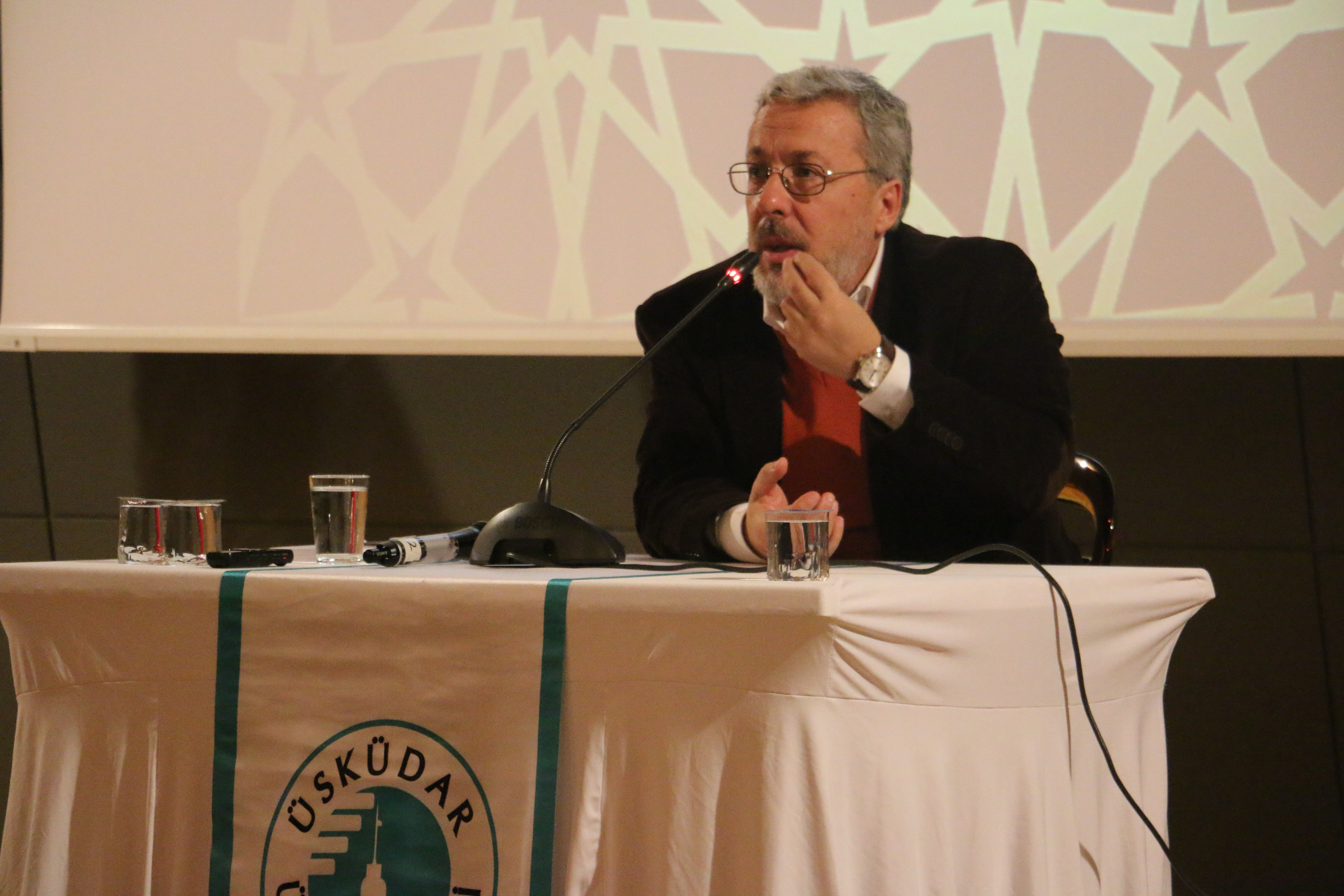 Mahmut Erol Kılıç